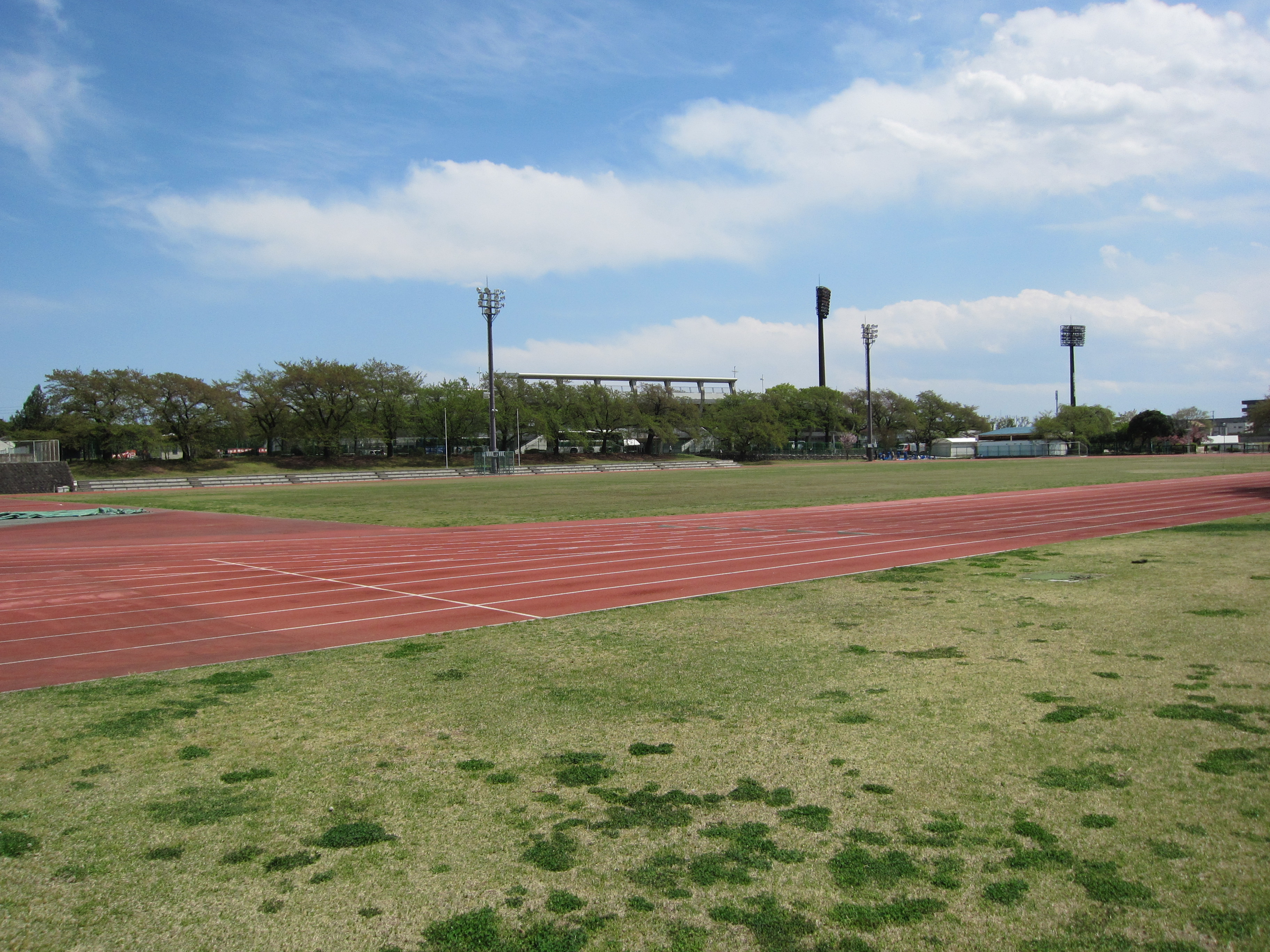 Gunma Shikishima Auxiliary Field